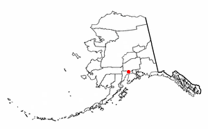 Adapted from Wikipedia's AK borough maps by Seth Ilys.